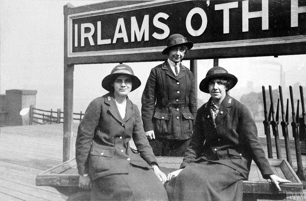 Women Railway Workers during the First World War Station Mistress and two porters at Irlams O'th Height Station, Manchester, on the Lancashire & Yorkshire Railway.